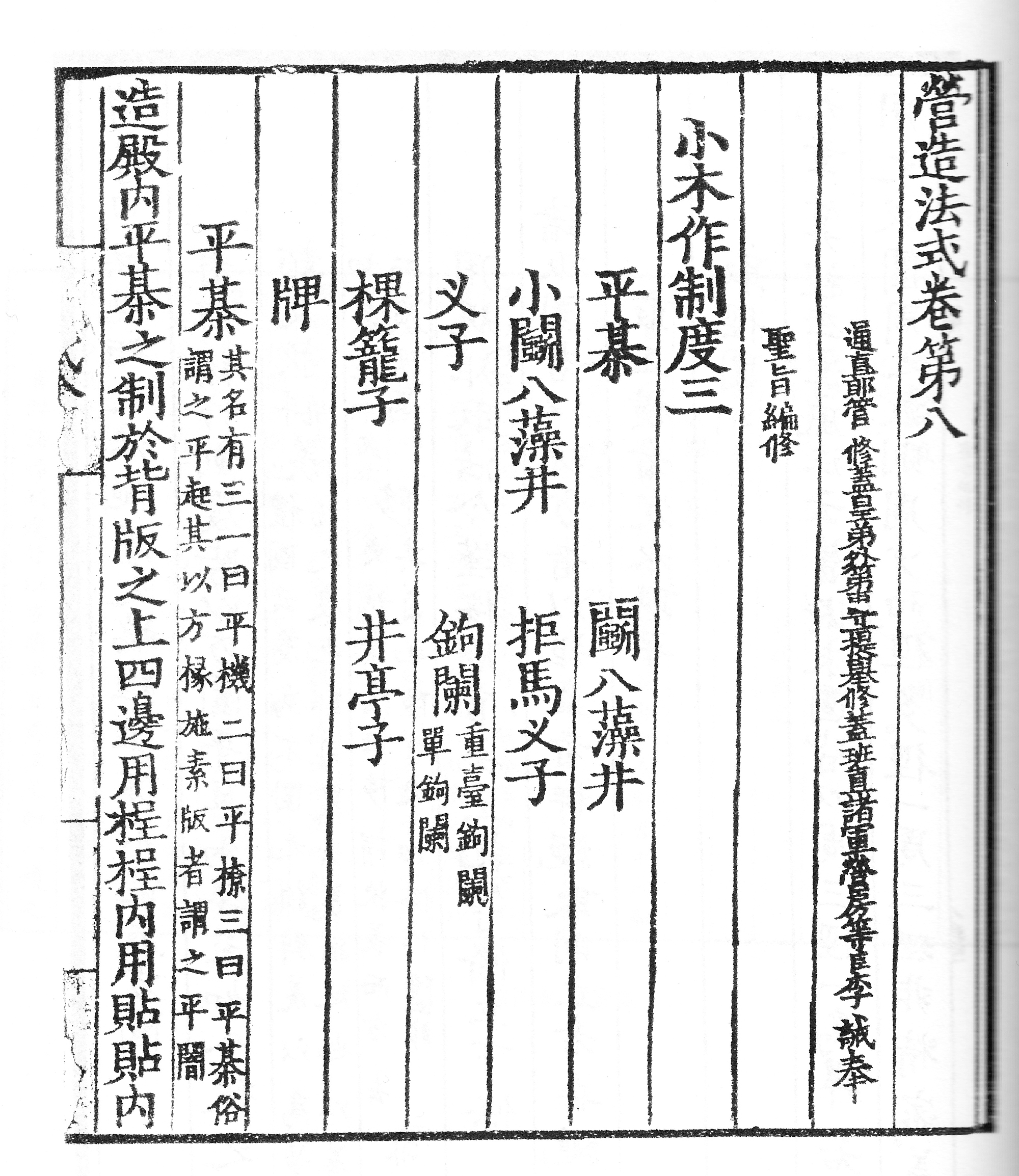 A page from Yingzao Fashi Song dynasty printing